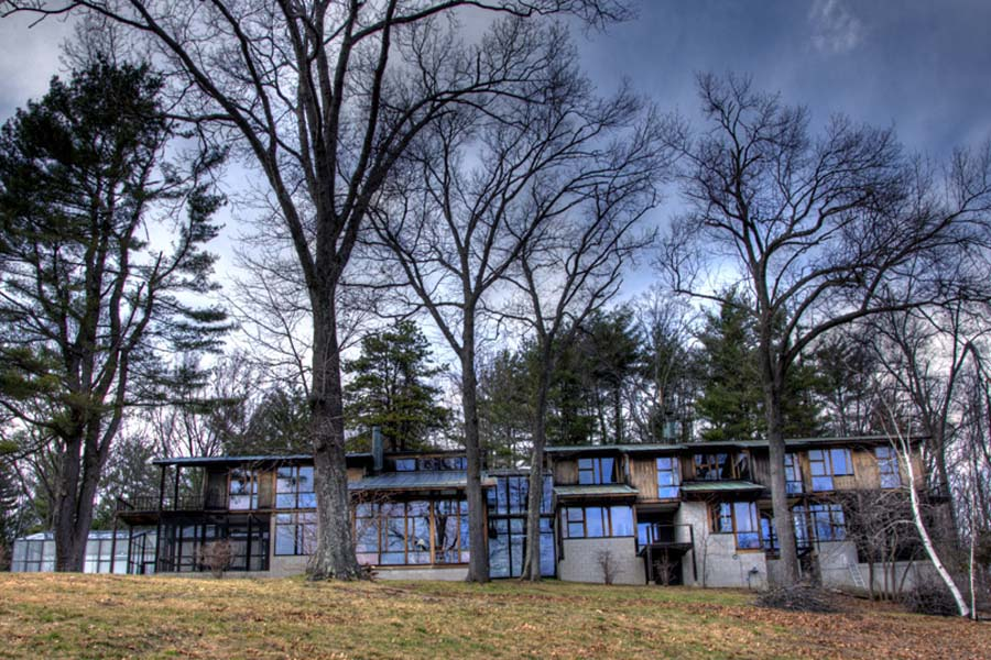 View of Indian Hill House looking from the south lawn.